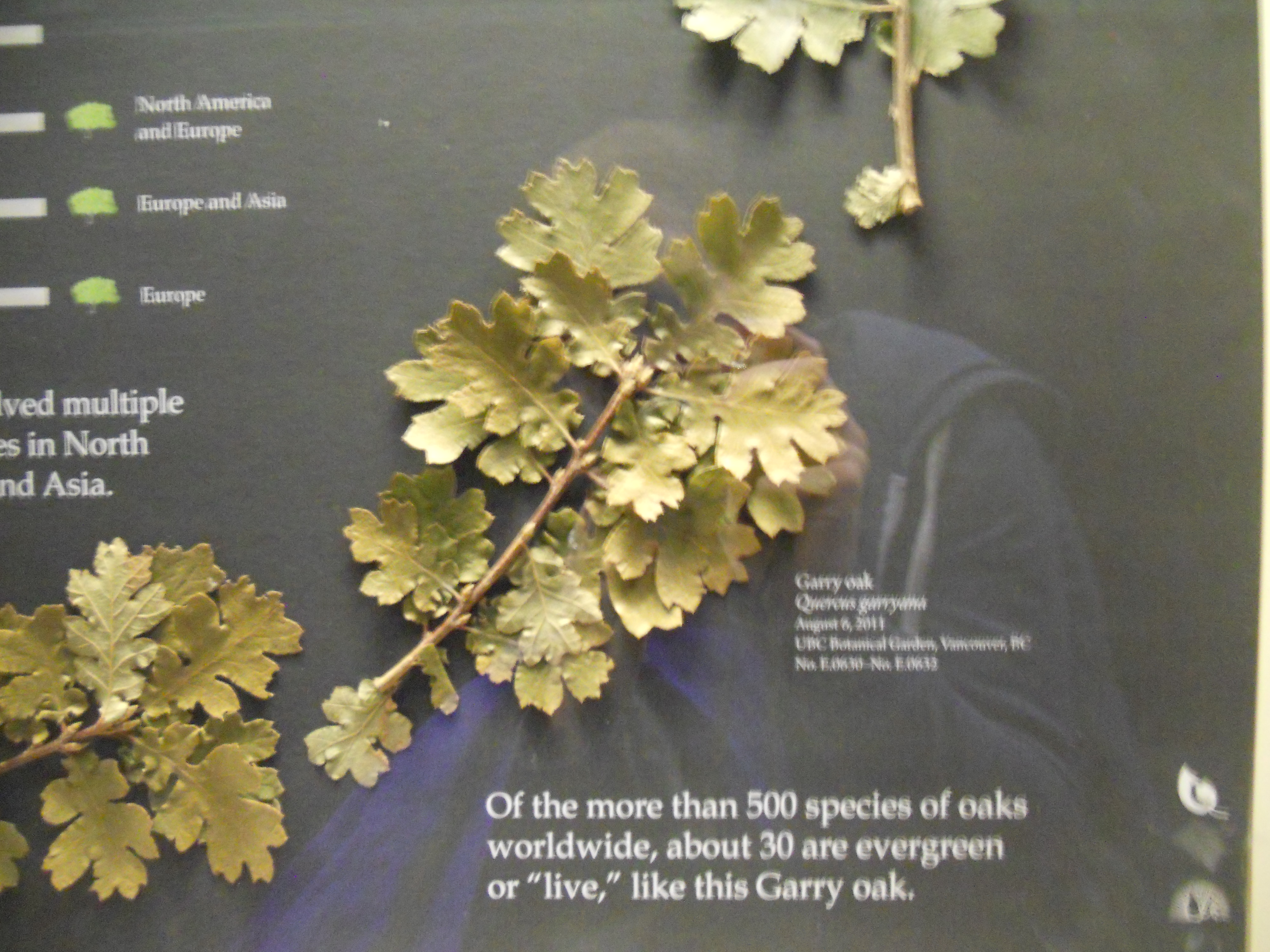 Beaty Biodiversity Museum LocationVancouver, British Columbia, CanadaCoordinates49° 15′ 48.96″ N, 123° 15′ 05.04″ W WebsiteBeaty Biodiversity Museum